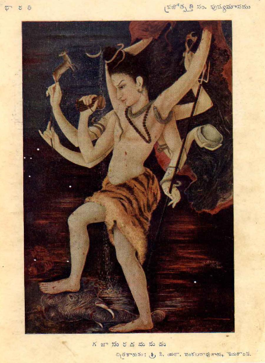 This is the painting of Lord Shiva who killed Gajasura by C.N.Venkatarao, the famous Indian Painter published in Barathi Magazine in 1932